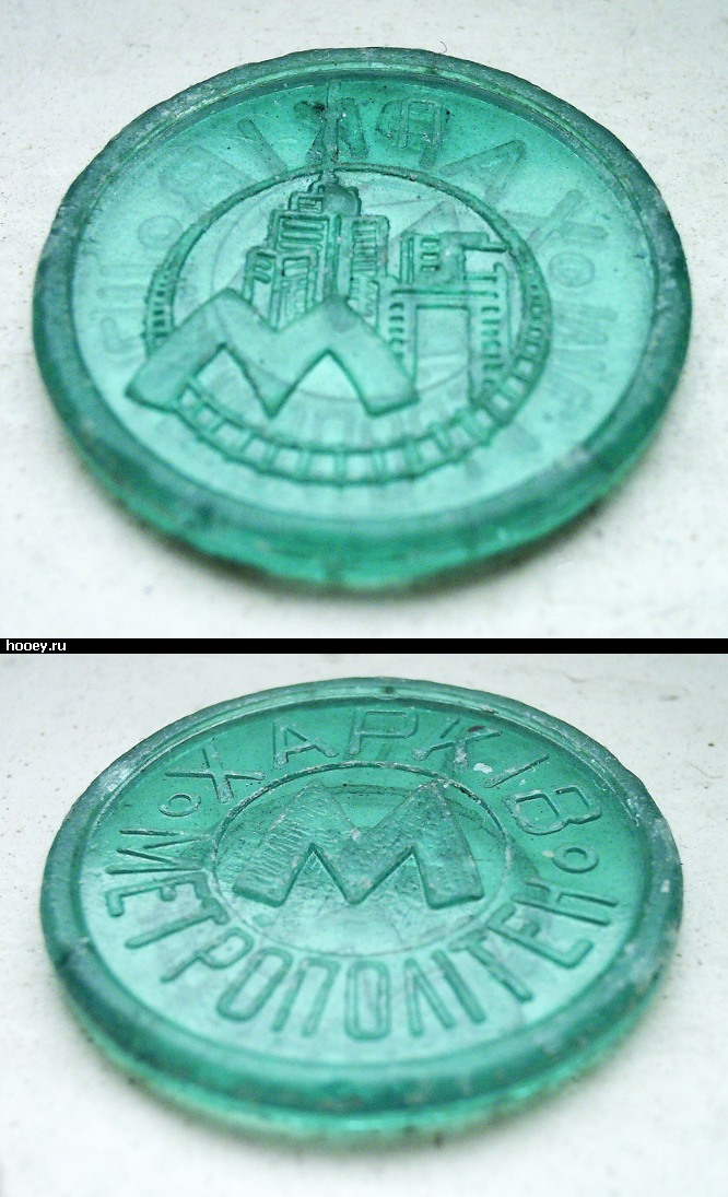 Two sides of a green plastic fare token for Kharkiv Metro, used in Ukraine's second largest city since 2000.